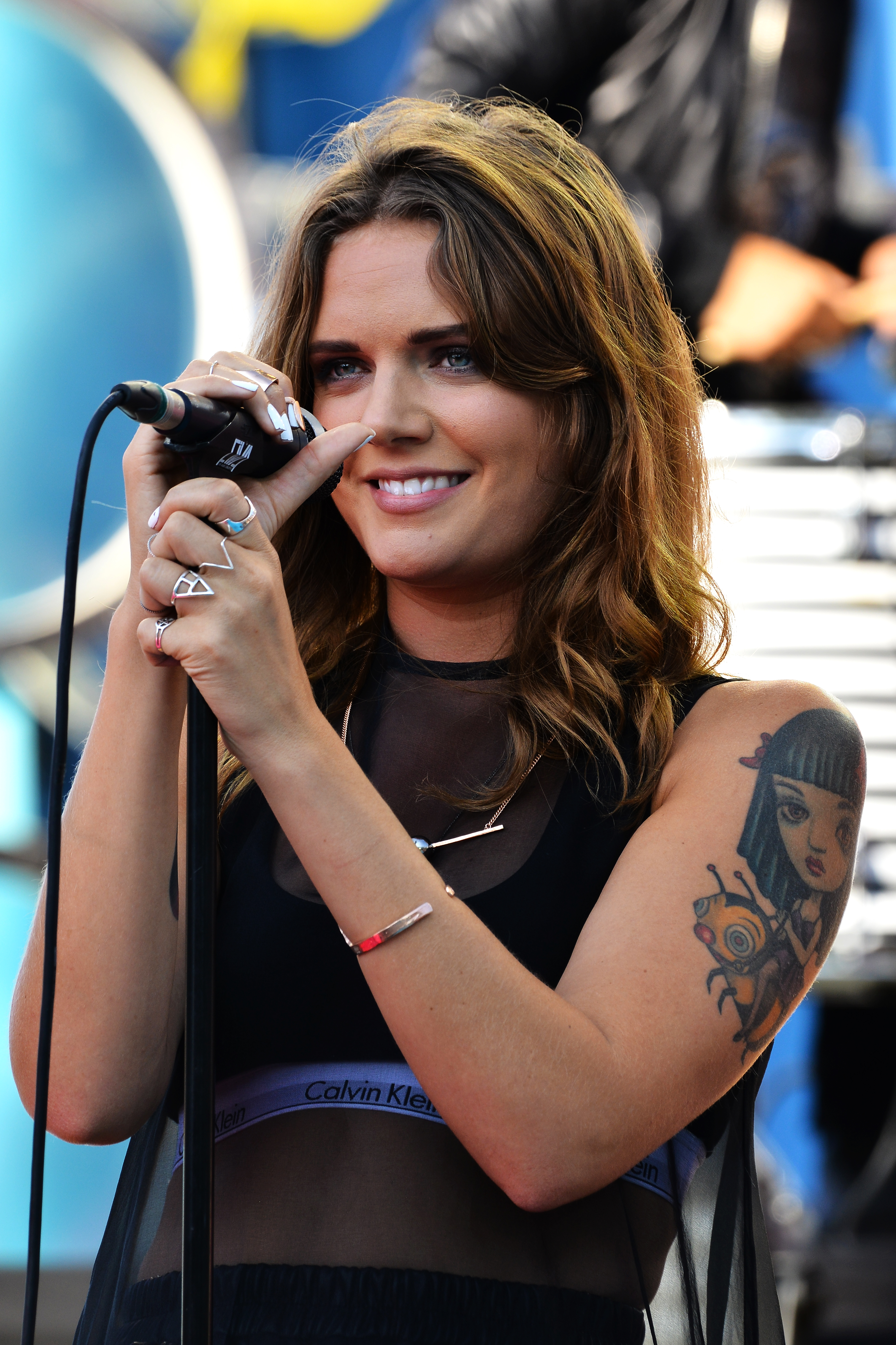 Tove Lo at sommarkrysset 2014